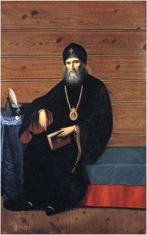 Filaret in his cell, 1850 pre-1937 photograph